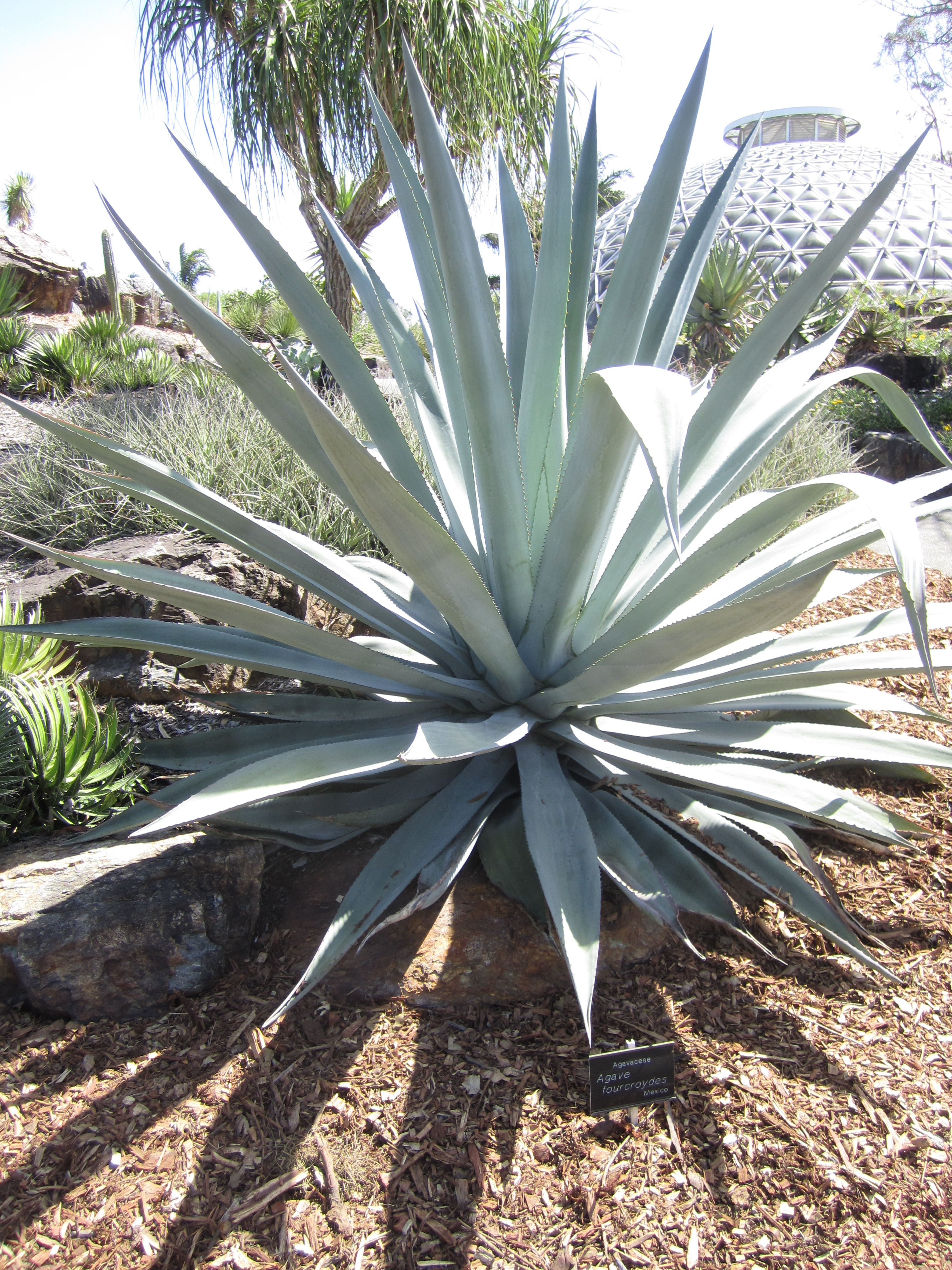 The making of this file was supported by Wikimedia Australia. To see other files made with WM-AU support, please see the category Supported by Wikimedia Australia. Agave fourcroydes in the arid plants section of the Mount Coot-tha Botanical Gardens. Photo taken in October (mid spring) of 2012.